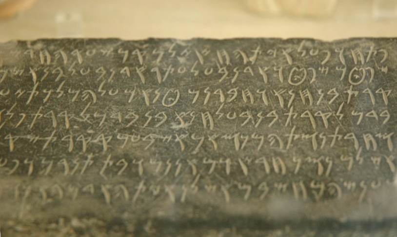 Detail of the Aedilian inscription of Carthage exposed in the Archaeological Museum of Carthage (Tunisia)